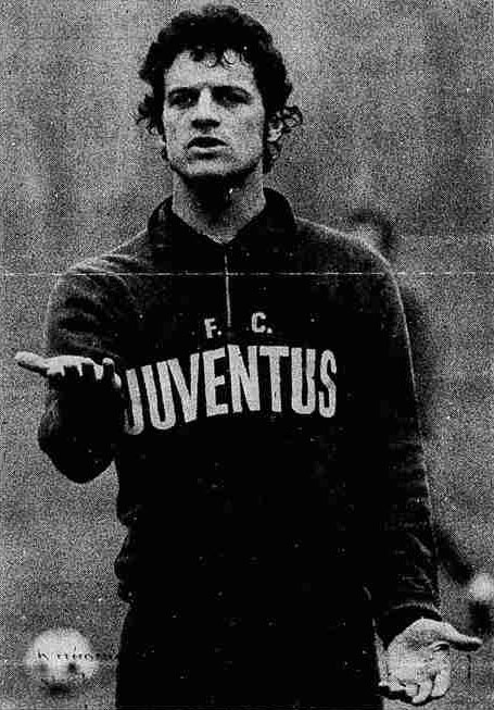 Turin (Italy), Combi Groung. Italian footballer Fabio Capello in training with Juventus F.C.